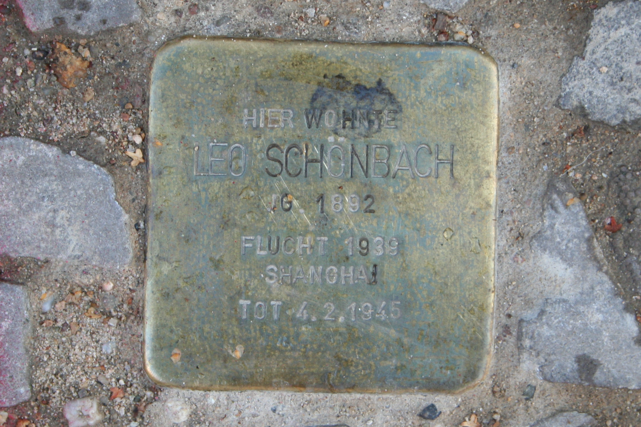 Stolperstein at Halle (Saale) for Leo Schönbach, Lafontainestraße 4